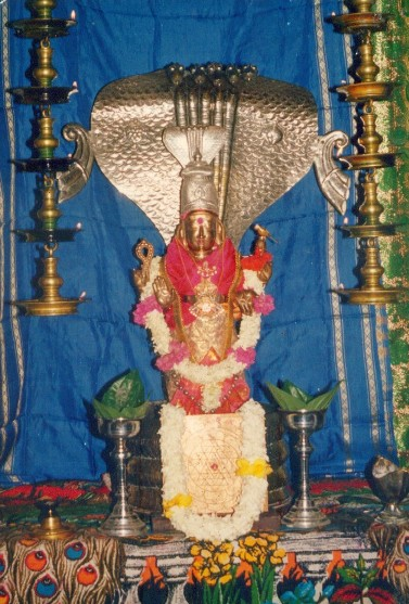 Seerani Nagabooshani Amman, Sandilipay, Jaffna, Sri Lanka